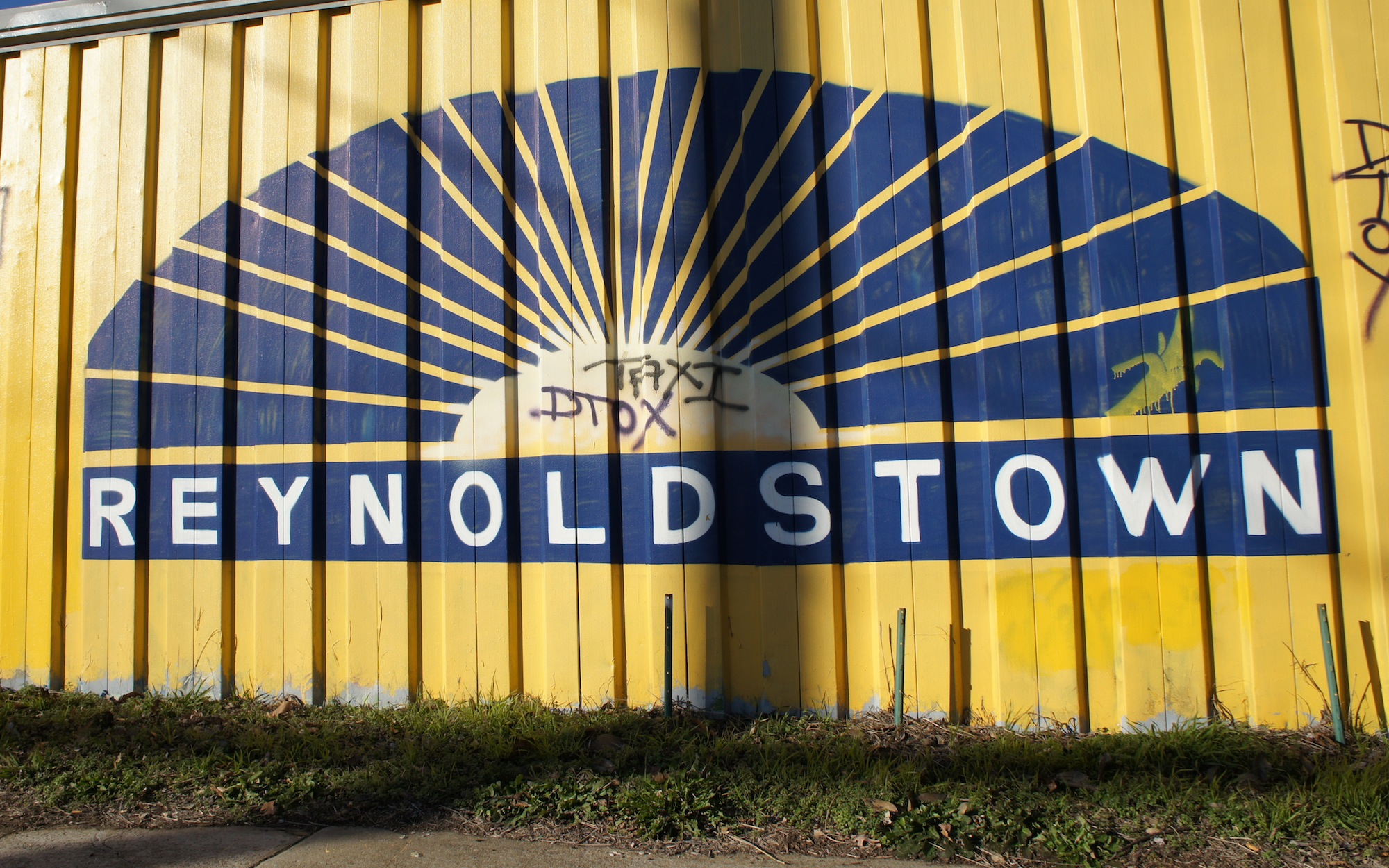 Reynoldstown logo on railyard wall